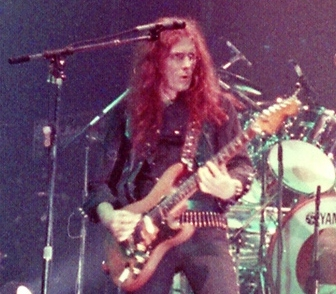 Motörhead performing live in 1982.